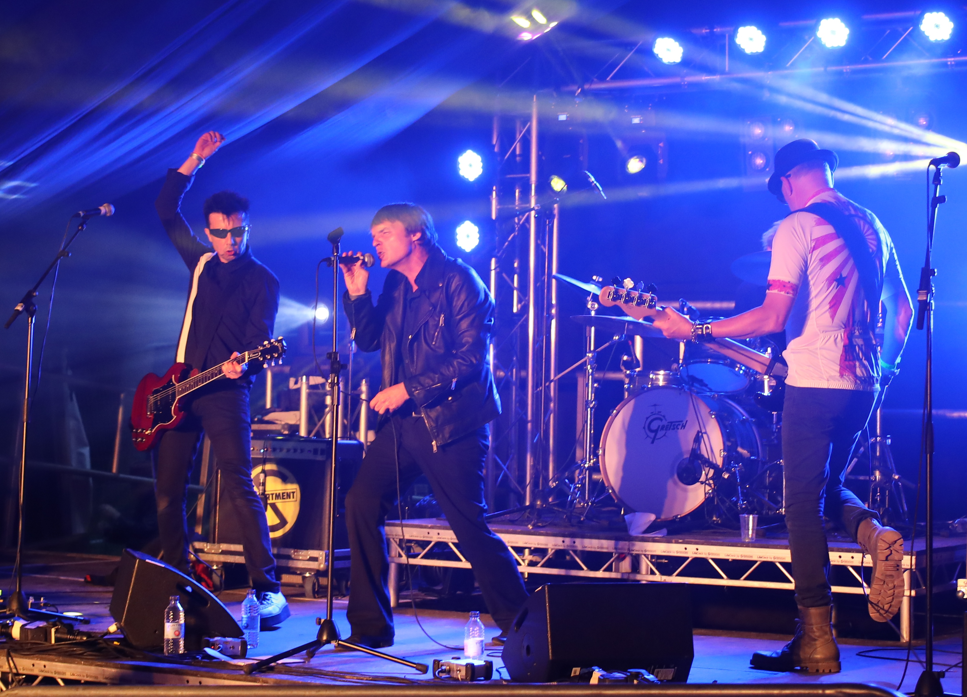 Photo of Department S performing at Byline Festival